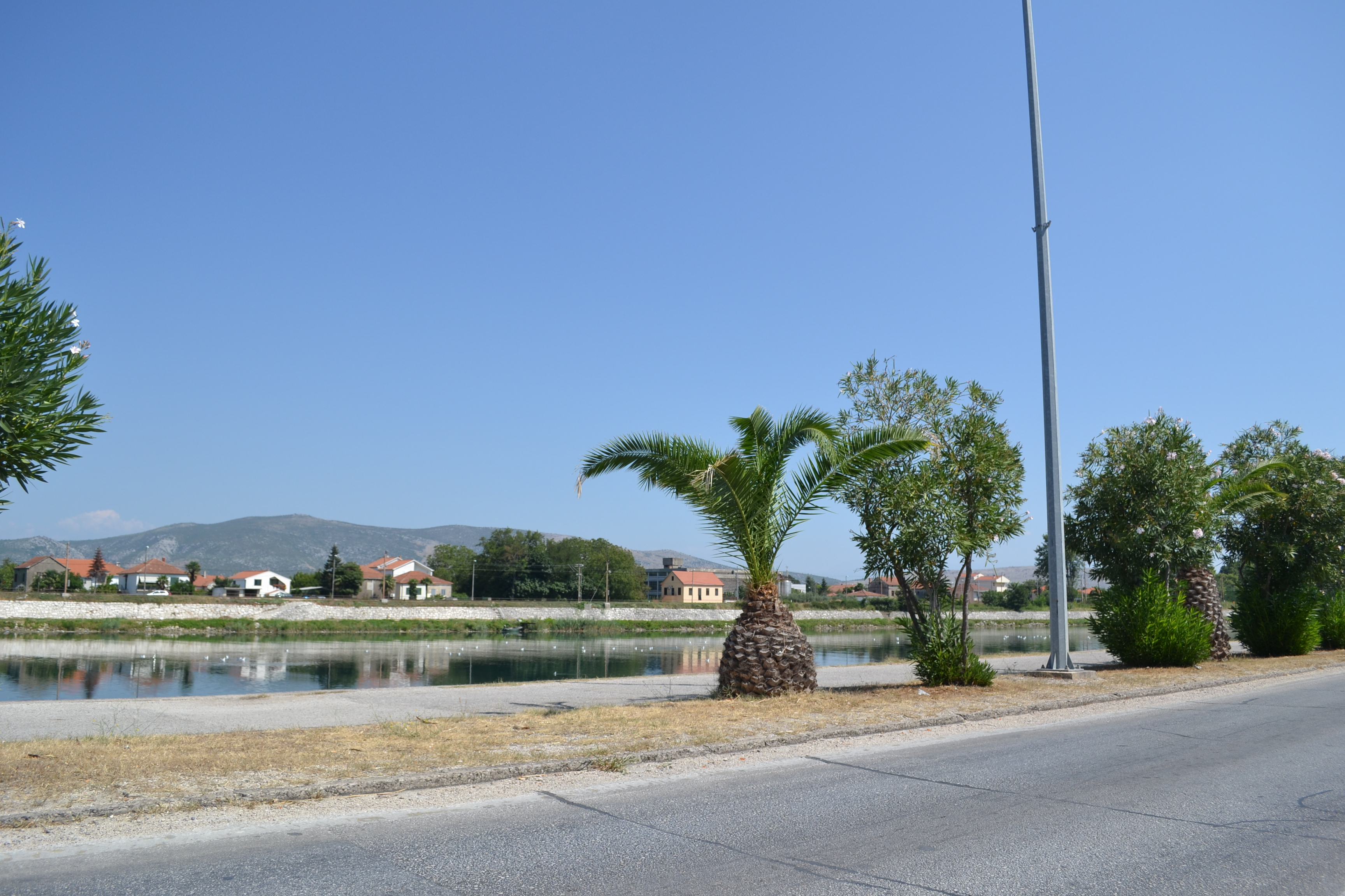 Neretva kod Metkovica